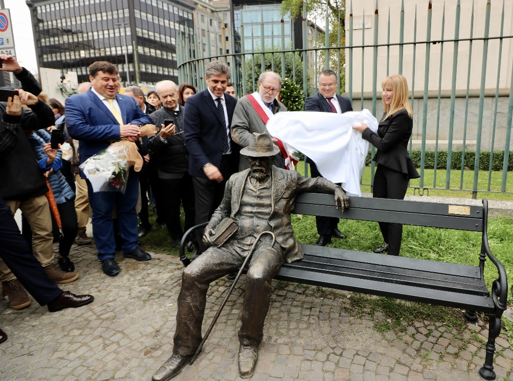 Panchina monumentale a Milano in onore del poeta bulgaro Pencho Slaveykov